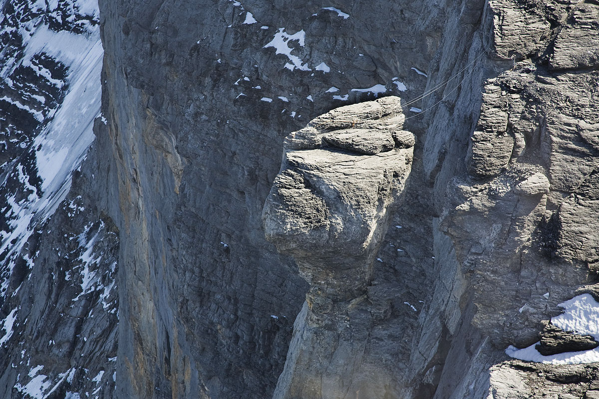 View from Eiger-westridge down to the "mushroom"